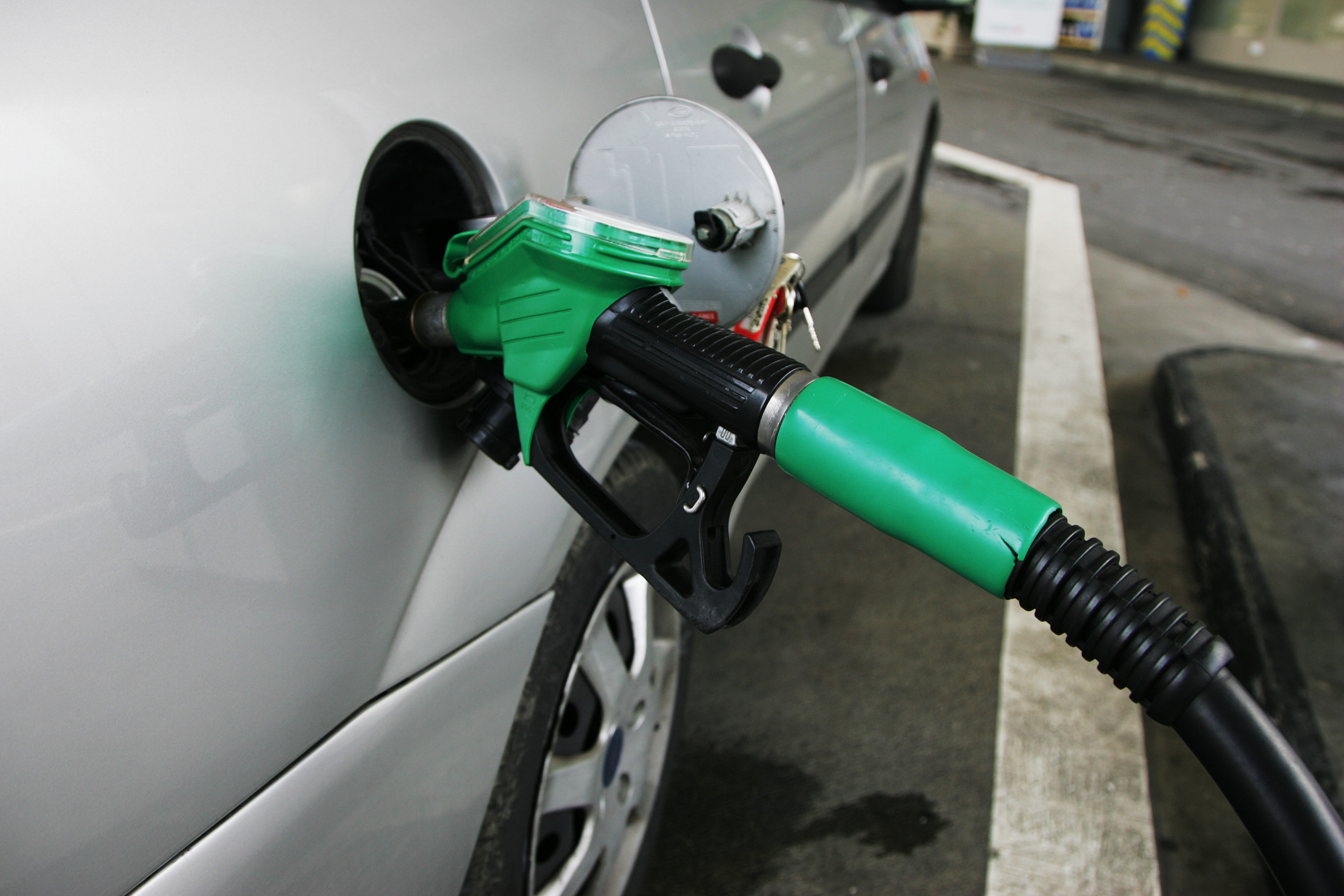 Petrol pumps in a petrol station in Switzerland.